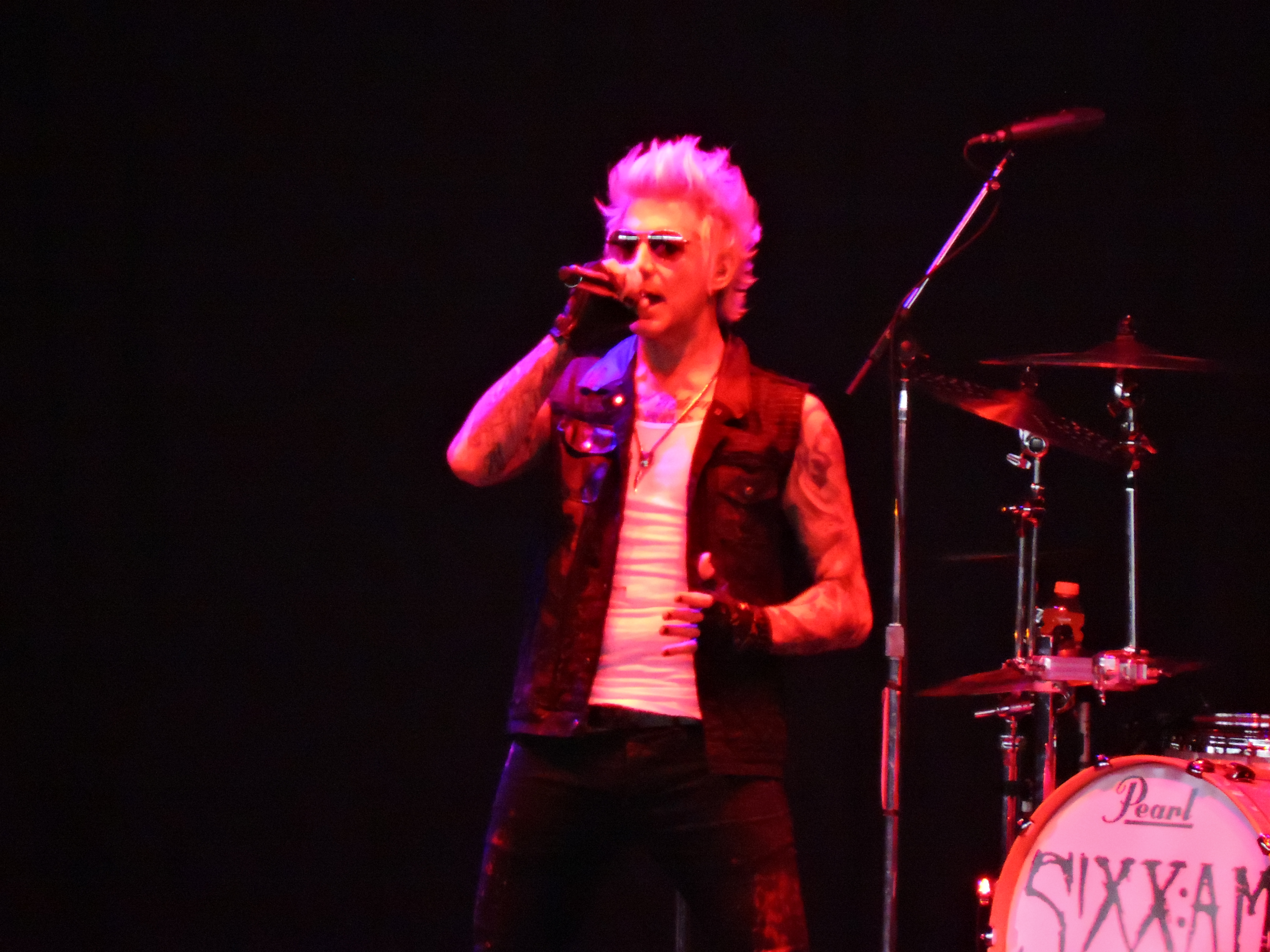 James Michael performing with Sixx AM at MMRBQ 2016, Camden NJ